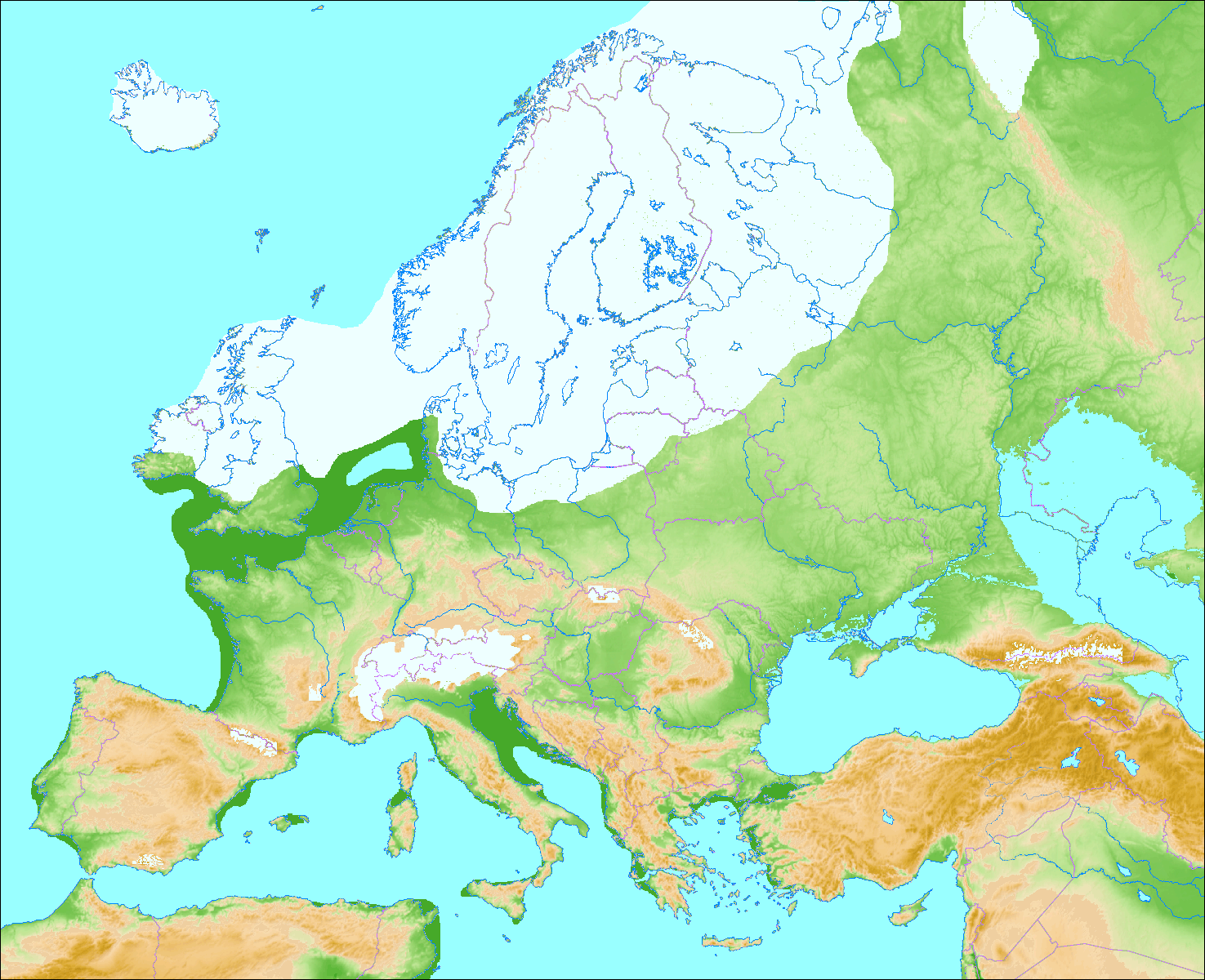 Europe during its last glaciation, about 20,000 to 70,000 years before present, in northern Europe called Weichselian Glaciation, in the Alpine Region Würm Glaciation. The Extent of glaciation, sea and lakes have been painted freehand according to [1] and File:Map of Alpine Glaciations.png